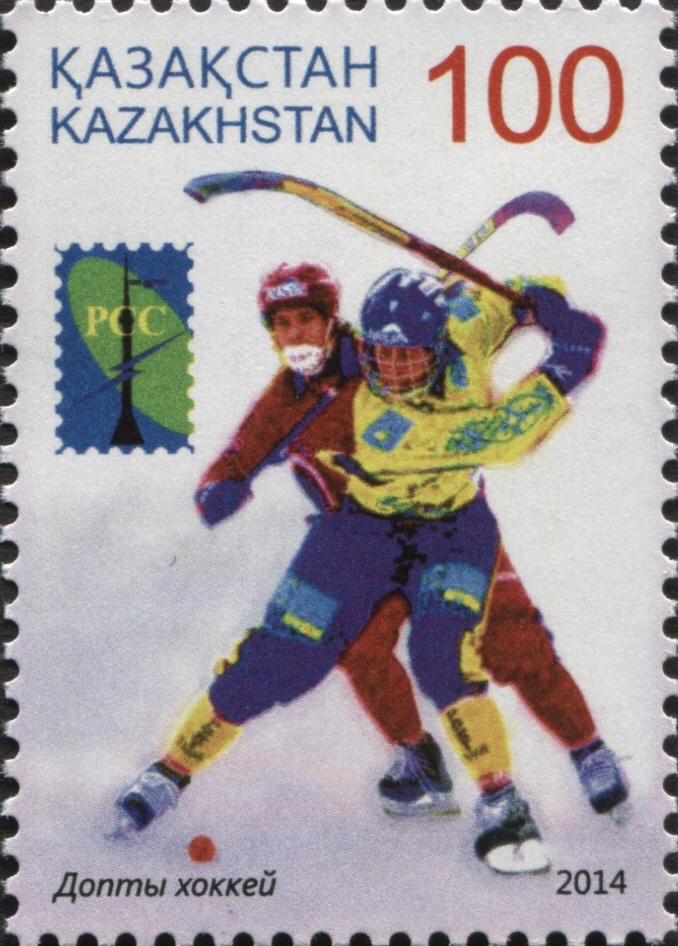 Stamps of Kazakhstan, 2014